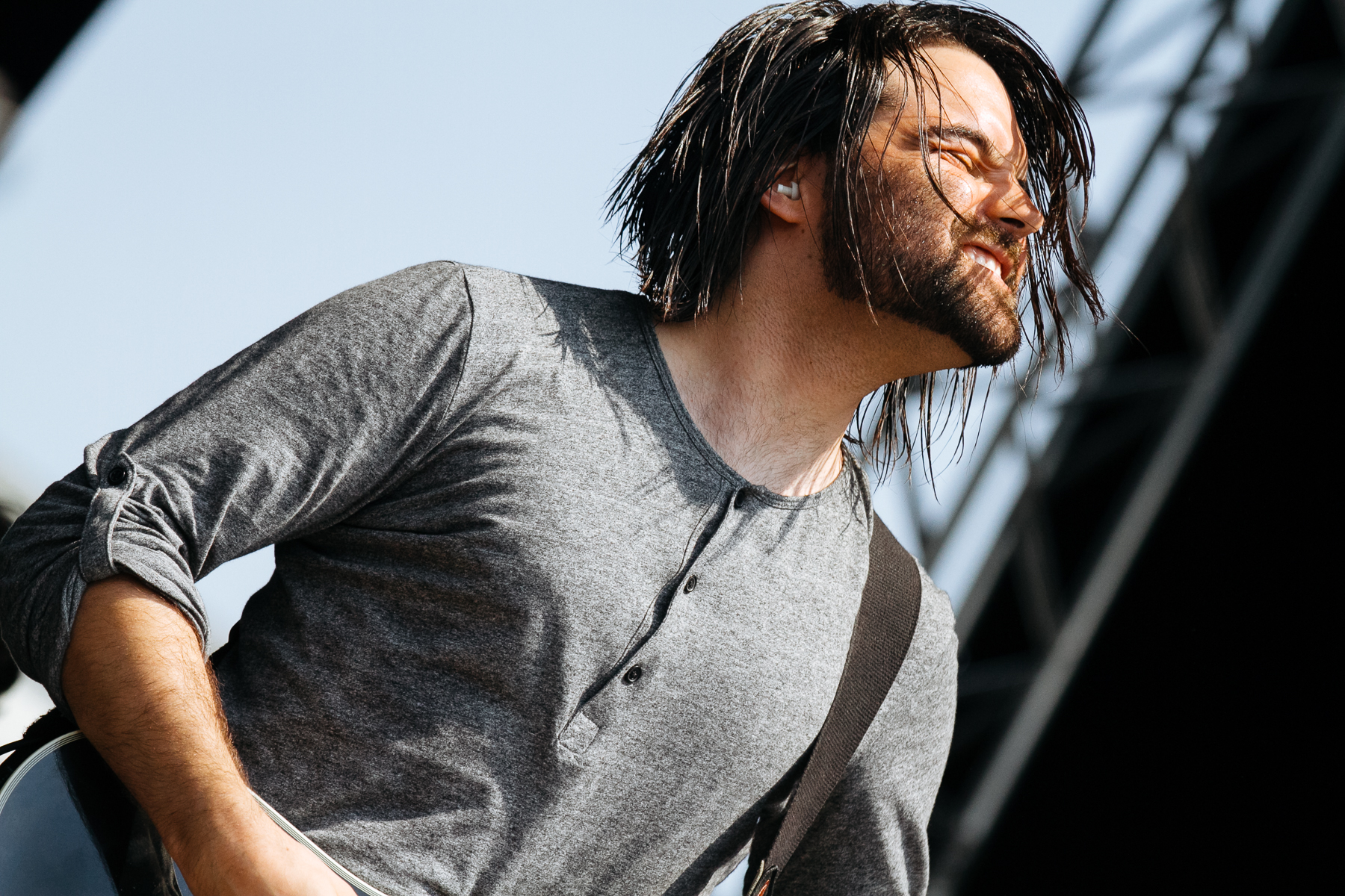 Breakdown of Sanity at Vainstream 2015